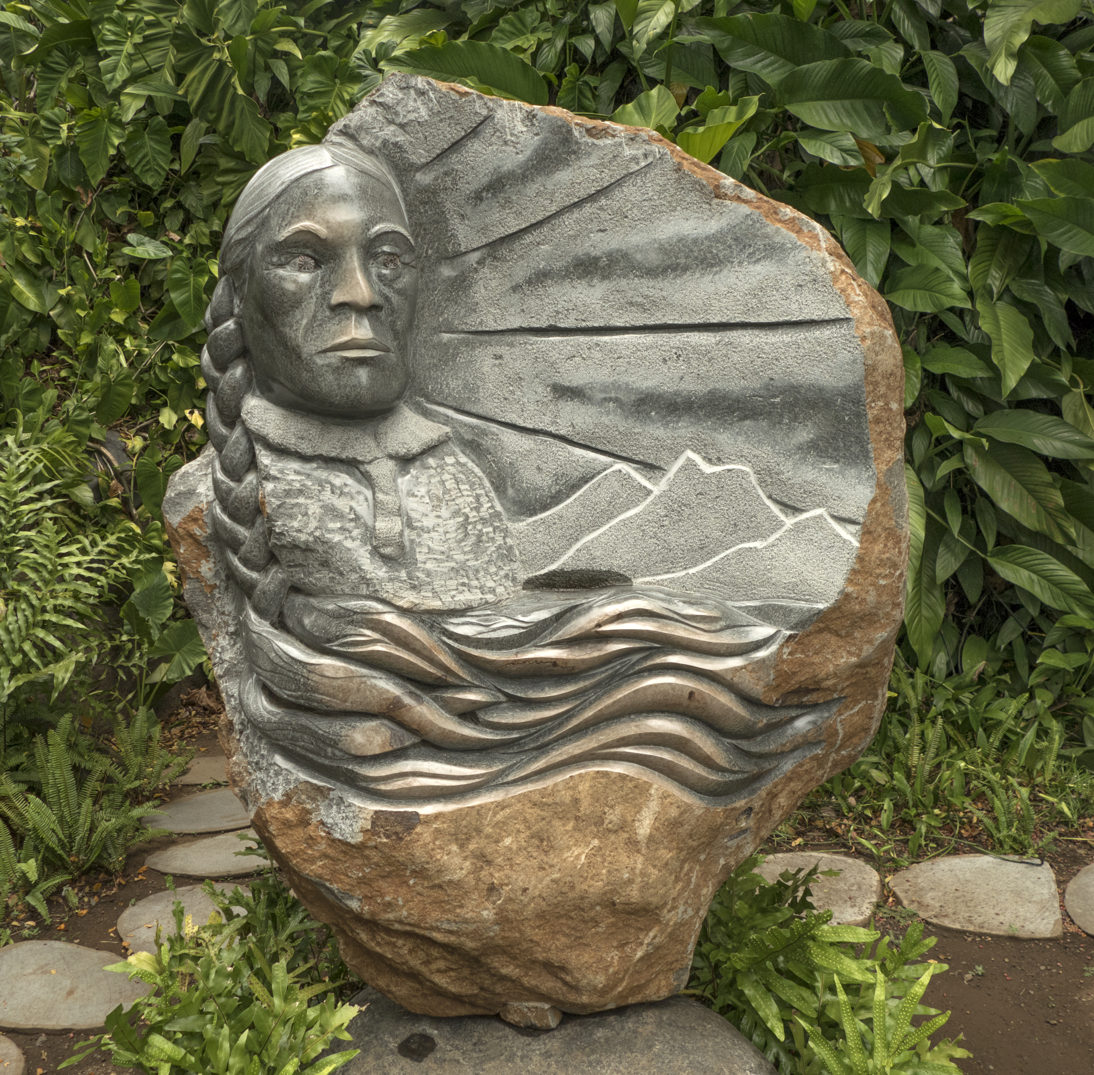 P1210326 Pā'ōfa'i Gardens, in the grounds of the Palace of Queen Pomare IV, Papeete. Sculpture honouring Queen Pomare IV. It is now in the garden of the "Assemblée Territoriale de la Polynésie Française" in Papeete, Tahiti.